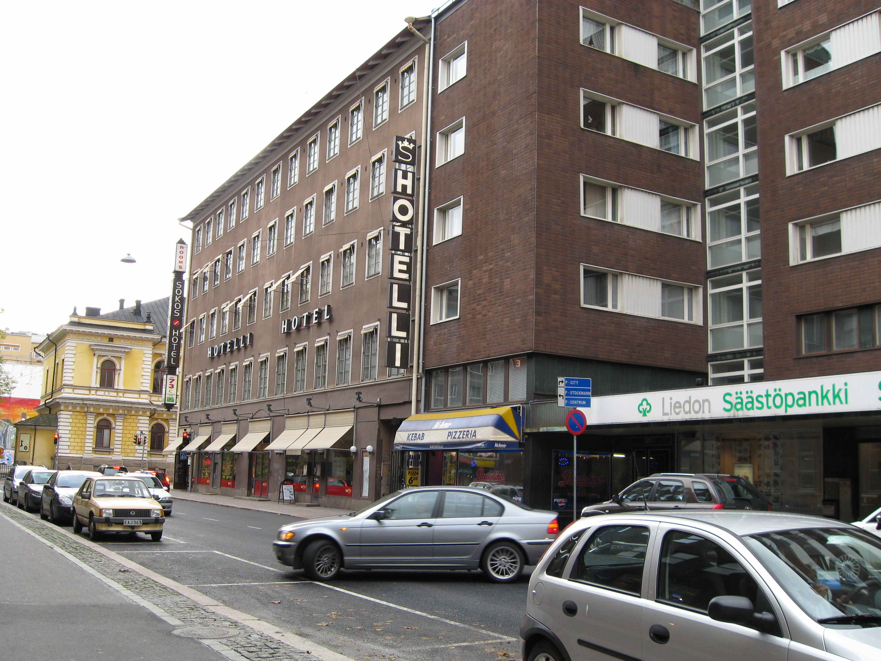 Sokos Hotel Seurahuone, in the corner of Humalistonkatu and Eerikinkatu, Turku, Finland